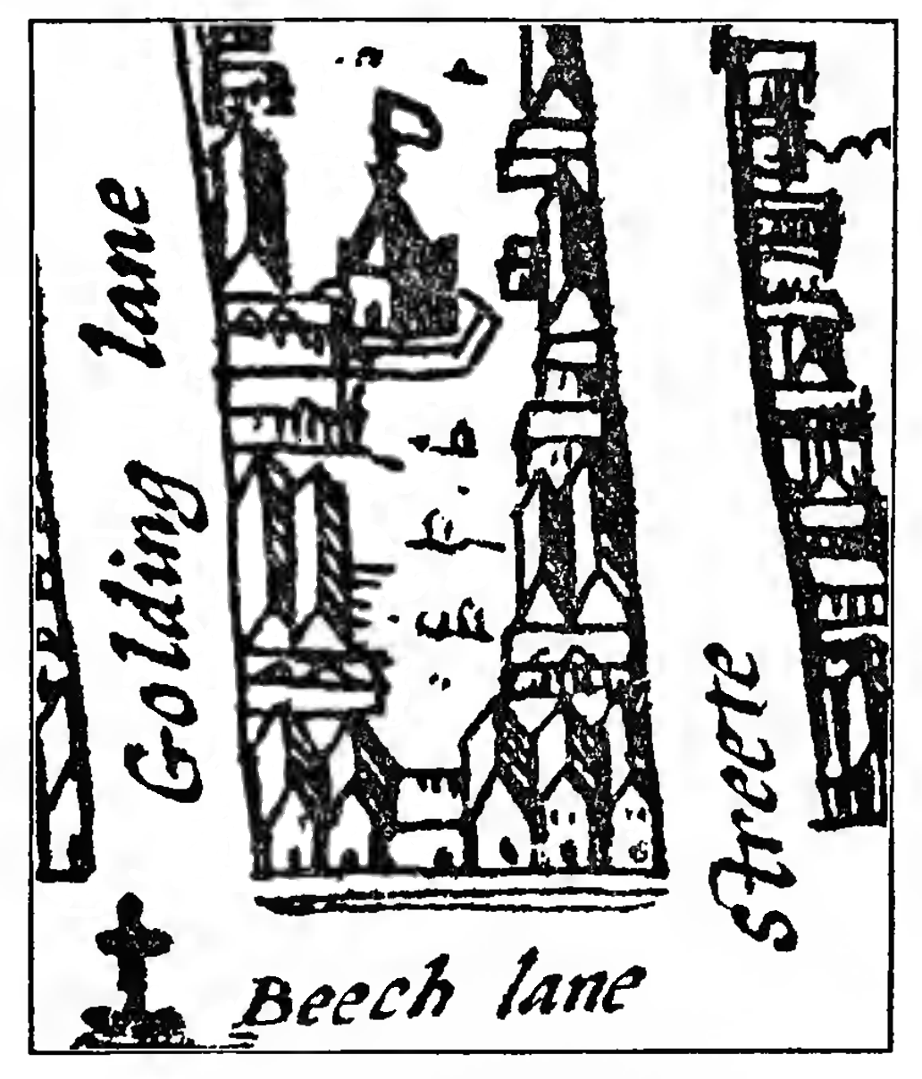 Fortune Playhouse between Golding Lane and Whitecross Street in the early 1600s.